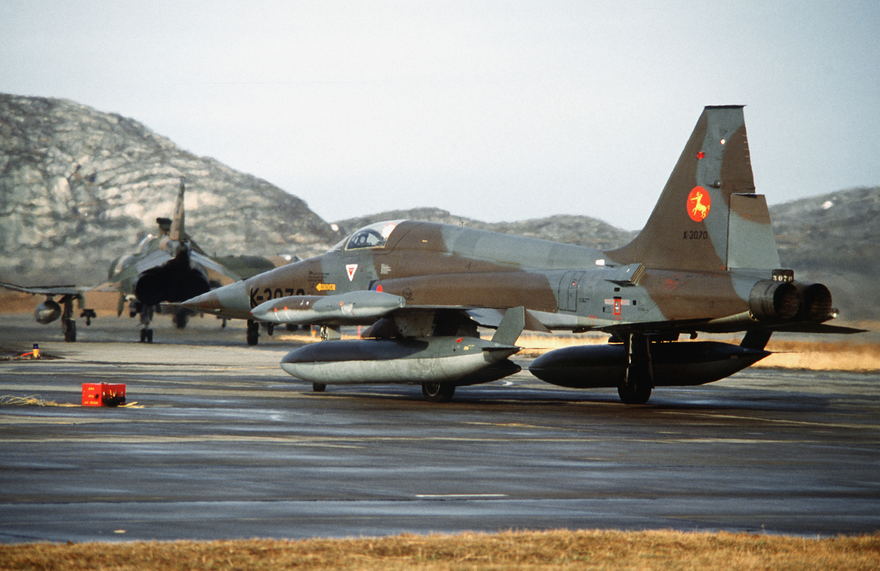 An Royal Netherlands Air Force Northrop F-5A Freedom Fighter (s/n K-3070) taxis down the runway behind two U.S. Air Force McDonnell Douglas F-4 Phantom II at Bodø Air Base, Norway, on 7 March 1982. These aircraft were participating in the exercise "Alloy Express".